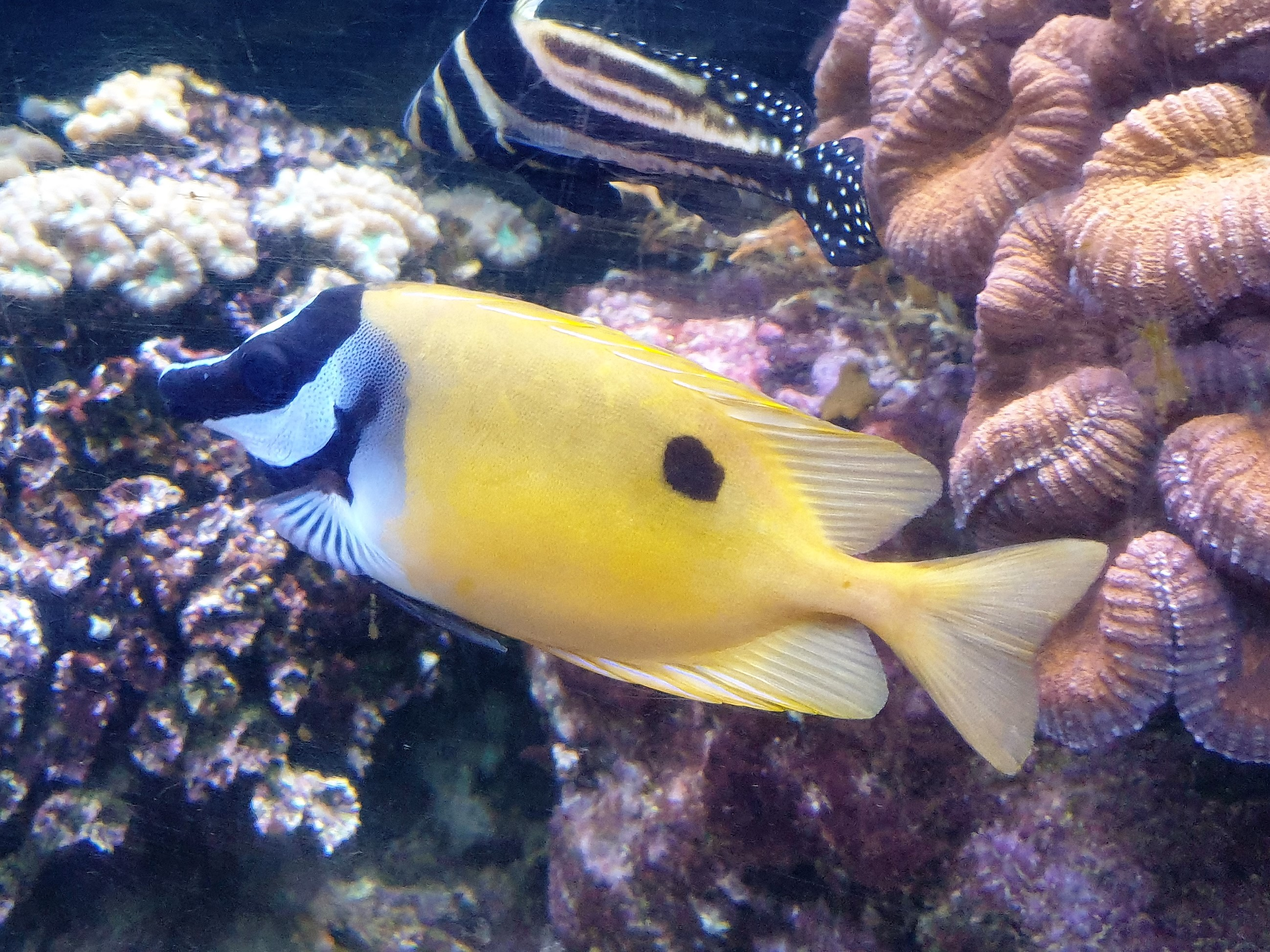 Blotched foxface (Siganus unimaculatus) at the Sea Life Centre in Hannover, Germany.